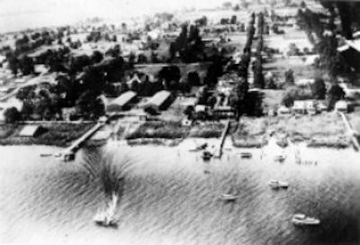 Chandler Field, Pennsylvnaia